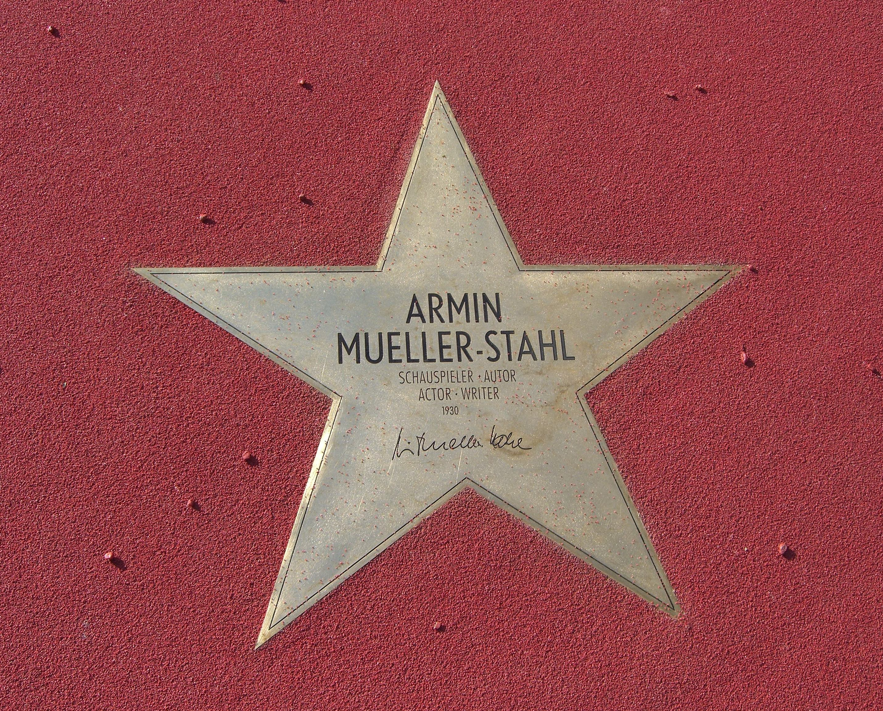 Star of Armin Mueller-Stahl at "Boulevard der Stars" in Berlin.